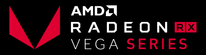 Unofficial logo for the RX Vega series made using official marketing materials.